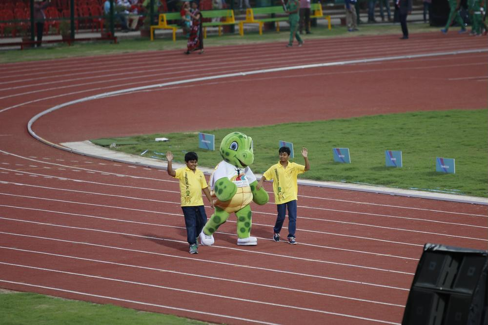 Athletes during 22nd Asian Athletics Championships in Bhubaneswar.